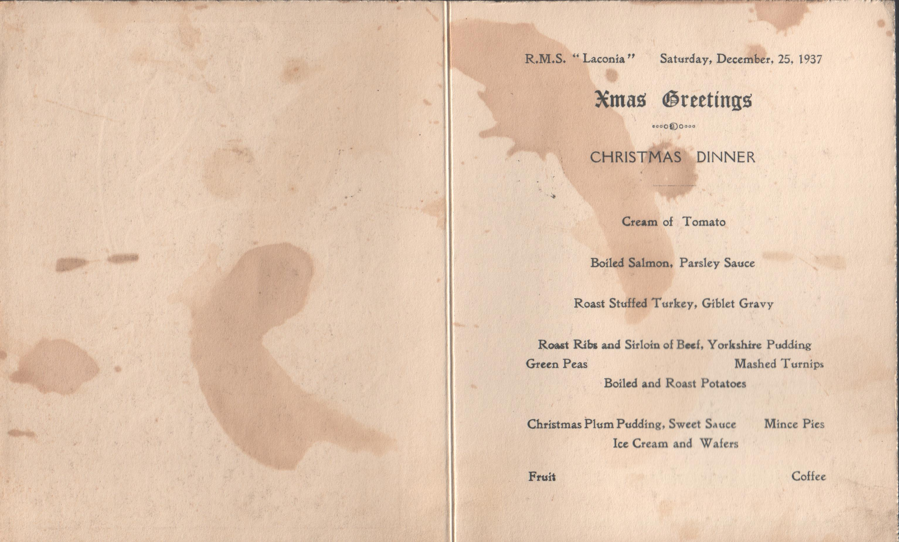 Christmas Menu from R.M.S. "Laconia" Saturday December 25 1937.